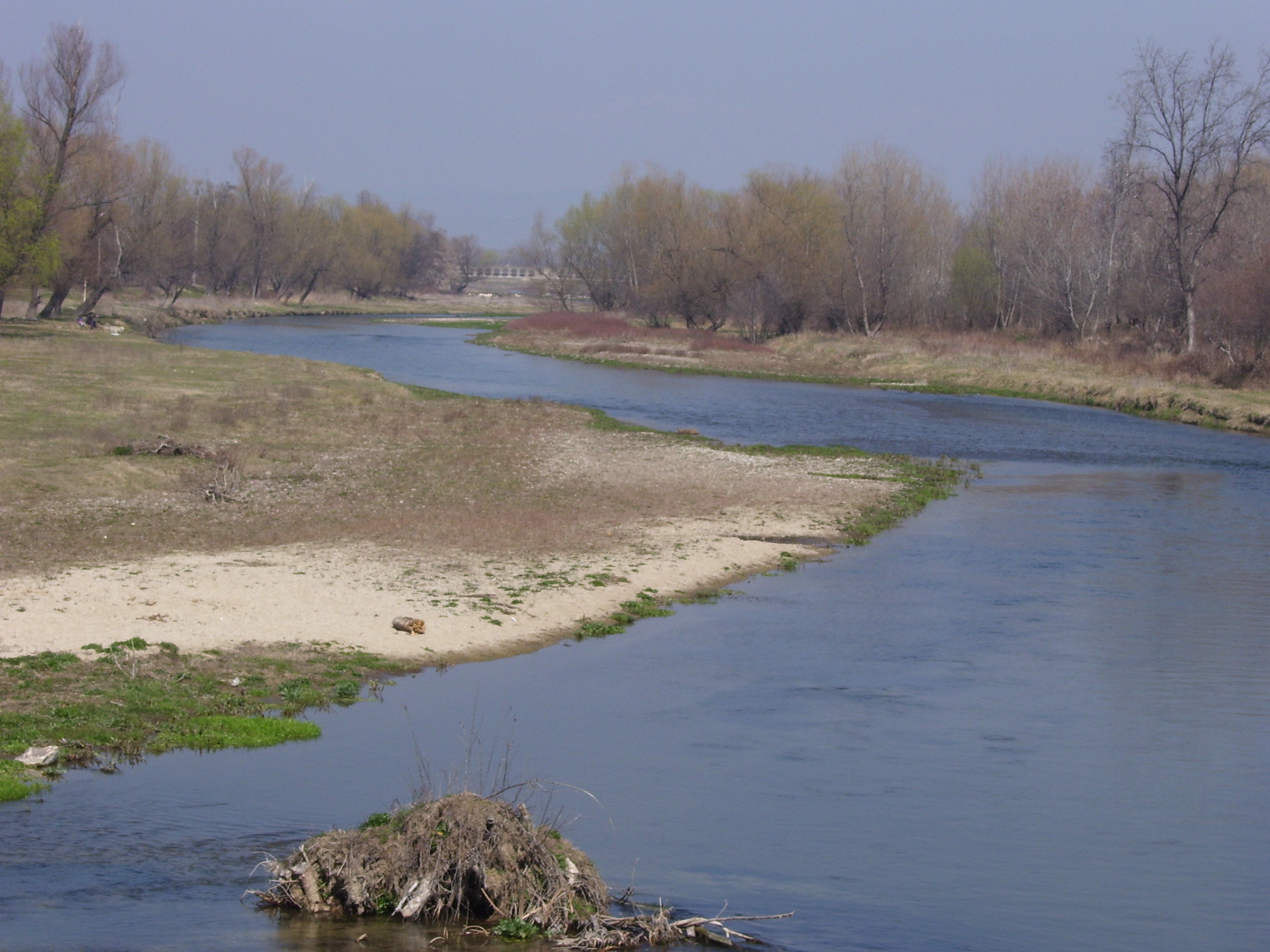 River Stryama between the villages of Razhevo and Chernozemen, Plovdiv Province, Bulgaria